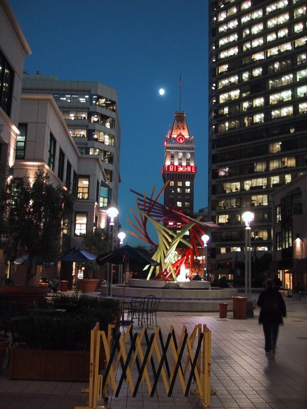 Downtown Oakland City Center, with Tribune Tower and sculpture, at night.